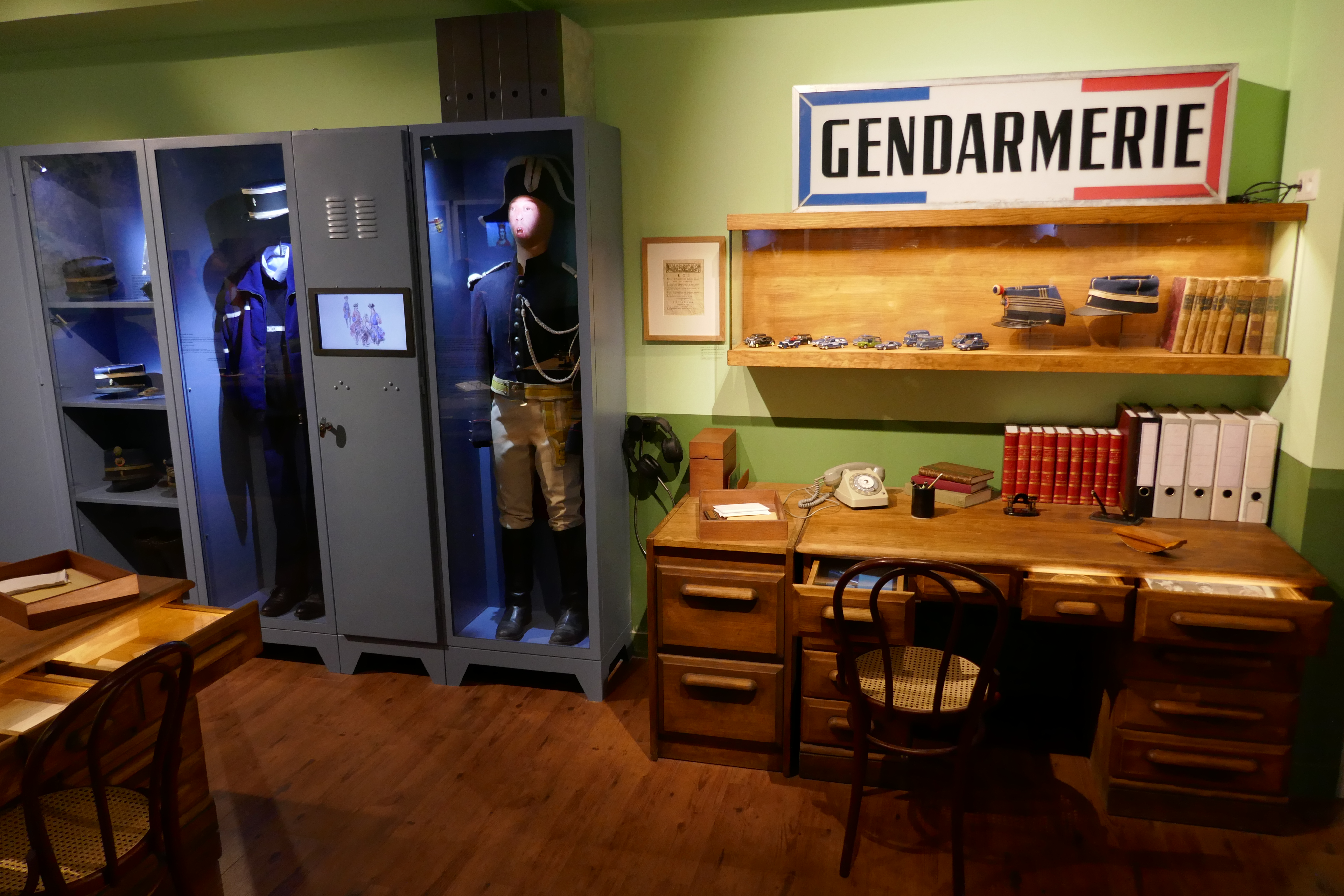 Gendarmerie de Saint-Tropez - Museum